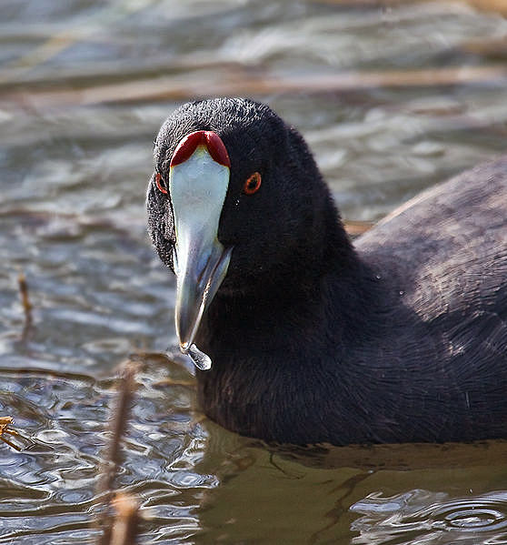 Fulica cristata Red-knobbed coot, close-up in wildlife, Parque natural de la Albufera de Mallorca